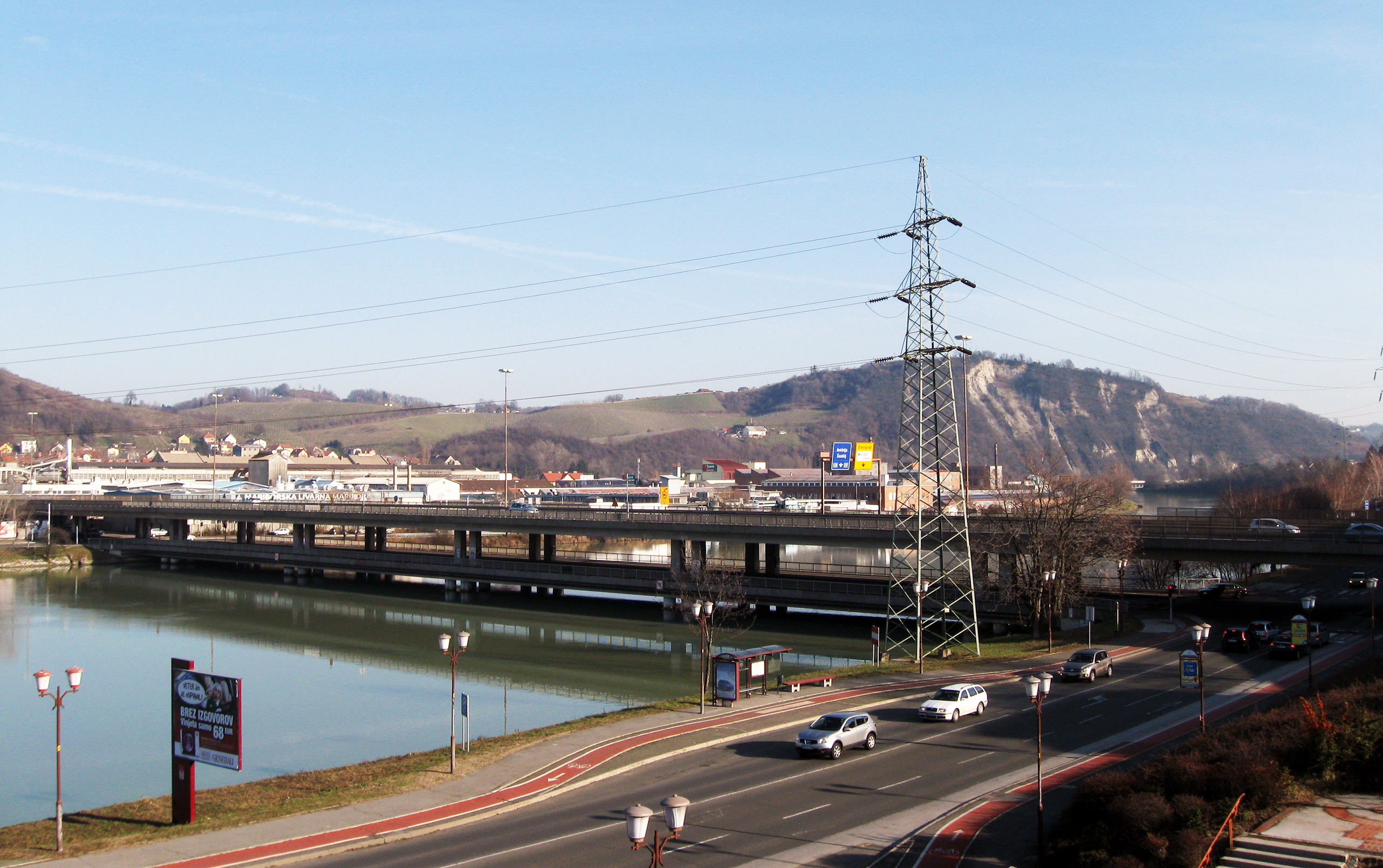 Melje Bridge is a bi-level bridge over Drava River in Maribor, Slovenia.